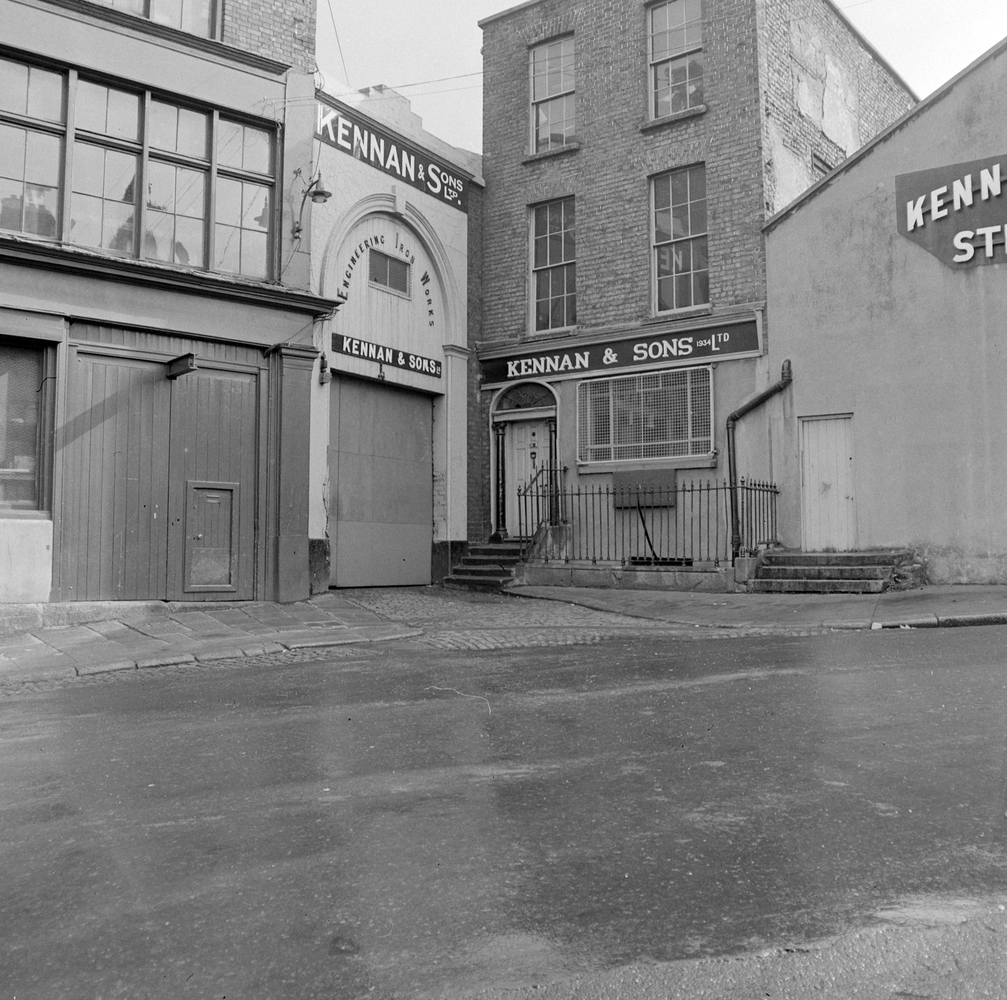 From the wide open spaces of Ballinasloe Fair Green to one of the oldest parts of inner city Dublin today, where we find the premises of Kennan & Sons in Fishamble Street (so named as the are was once a fish market: Fish shambles). With thanks to the contributors below, especially [/photos/66311327@N05/ B-59], [/photos/129555378@N07/ sharon.corbet], [/photos/20727502@N00/ guliolopez], [/photos/beachcomberaustralia/ beachcomberaustralia], and [/photos/23851618@N07/ dok1969], we learned a lot more about the Kennan engineering works site. Not least that the central archway was once the gateway to Neal's Music Hall - where JF Handel first showcased his famous Messiah in 1742: The Music Hall, Fishamble Street, was founded in 1741 [..and in the..] following year, HANDEL performed there [...] It continued the most fashionable place of public entertainment until [...] it was in 1868 added to KENNAN & SONS' Works, and it now resounds again with the "Harmonious Blacksmith", differently composed Photographer: Elinor or Reginald Wiltshire Collection: Wiltshire Photographic Collection Date: 1967 NLI Ref: WIL 32[1] You can also view this image, and many thousands of others, on the NLI’s catalogue at